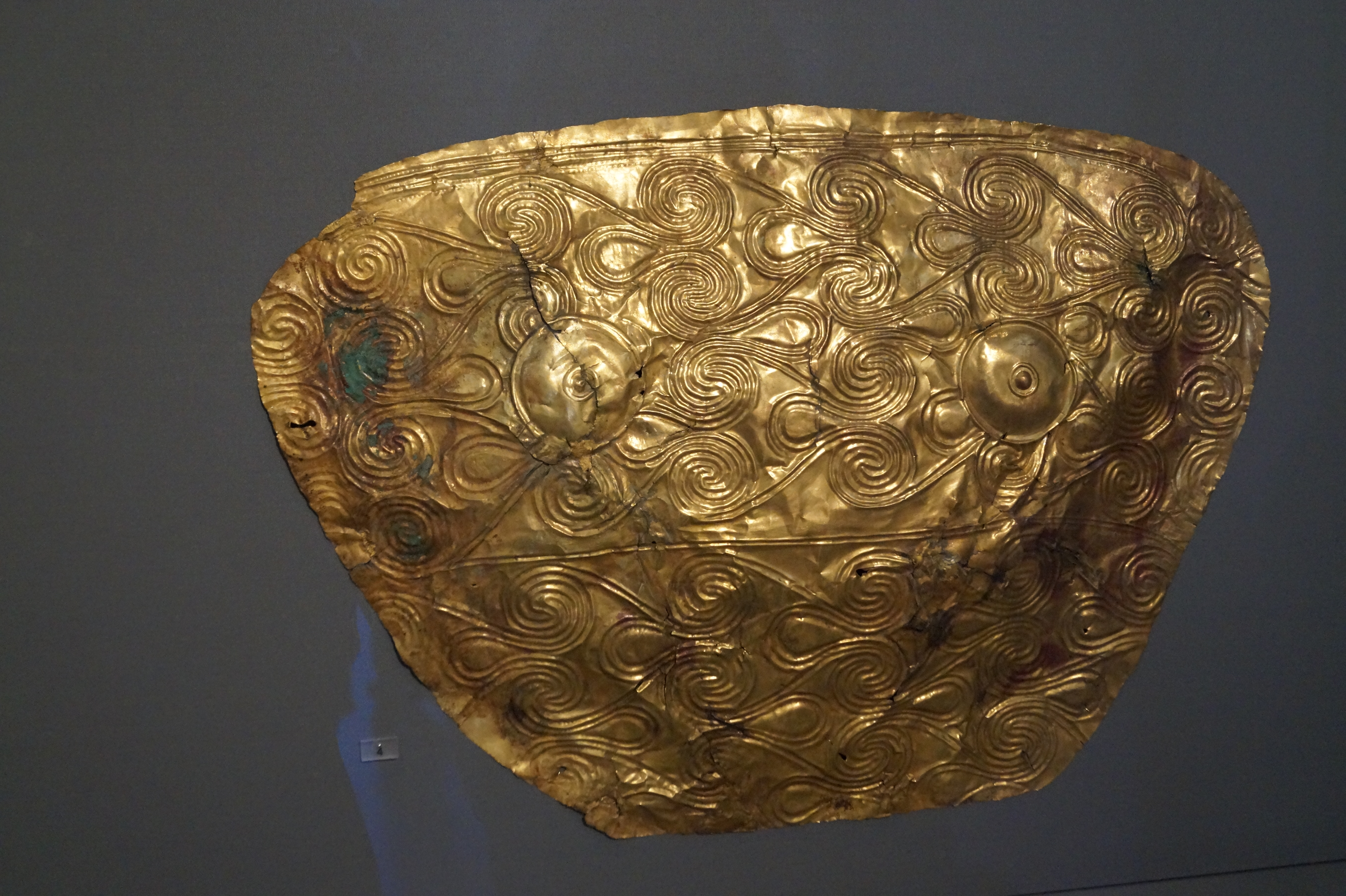 National Archaeological Museum of Athens: Golden breastplate from grave V of grave circle A at Mykenae (NAMA 625)